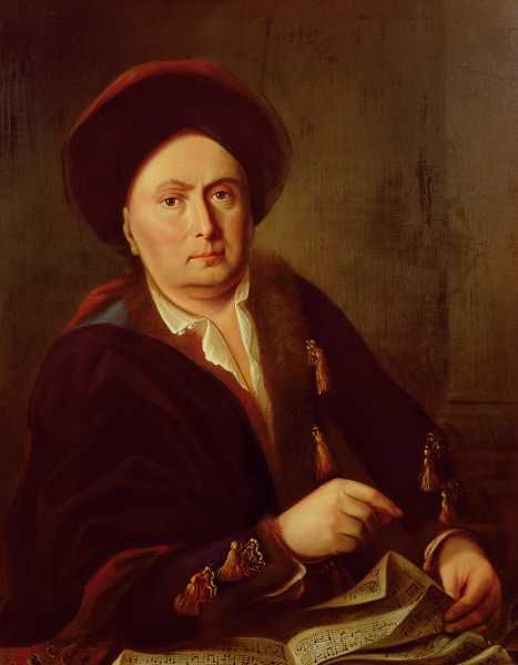 Leopold Radoux, Portrait of Lodewijk van Beethoven, 1773. This is the only known painting by Radoux, who was a sculptor and woodcarver in Bonn.